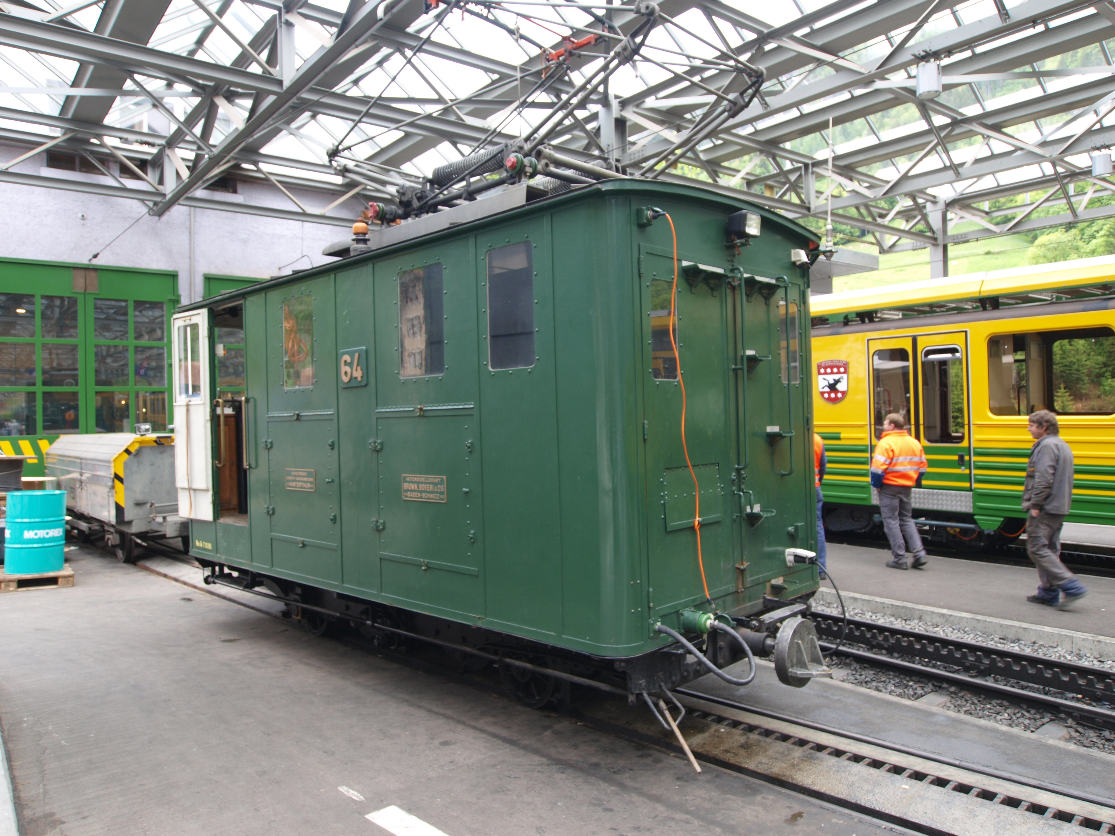 Photographed in Switserland.